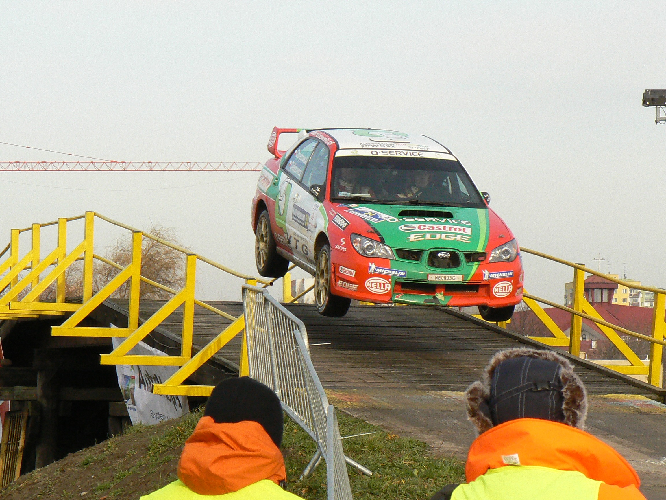 Oleksowicz/Obrębowski during 2007 Barbórka Rally (45. Rajd Barbórki). SS2 - Bemowo 1.